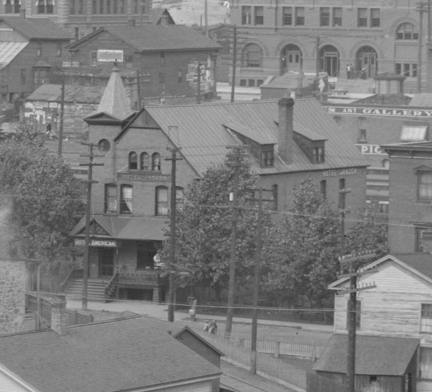 The Hotel Janzen in Marquette, Michigan, circa 1908. Railroad tracks are visible at bottom middle-right, which run next to the hotel. Part of much larger image from the Detroit Publishing Co., titled "The Harbor, Marquette, Mich.", copyright 1908, No. 015591.